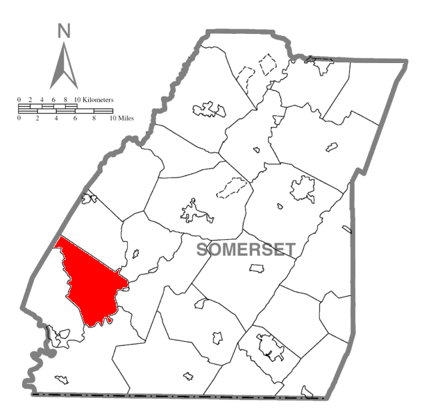 Map of Somerset County, Pennsylvania highlighting Upper Turkeyfoot Township